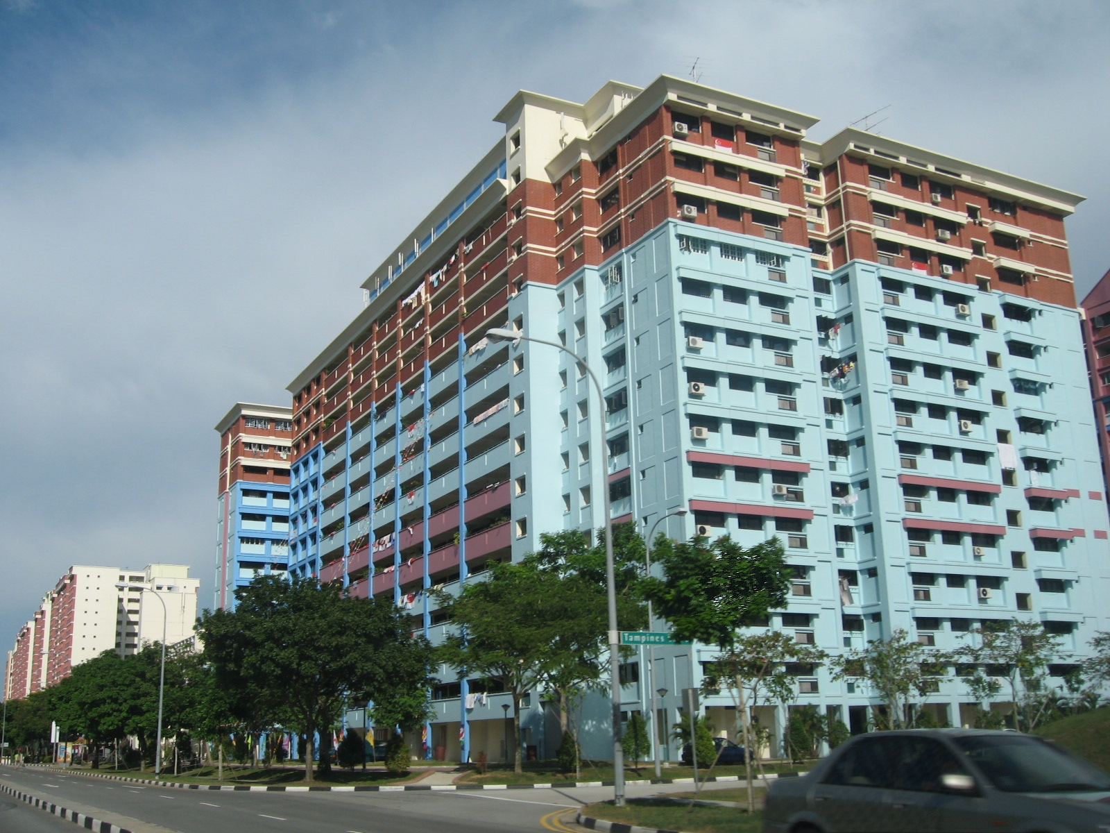 HDB flats at Tampines New Town.